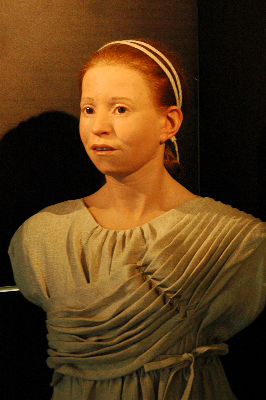 Reconstruction of "Myrtis", an ancient Athenian girl